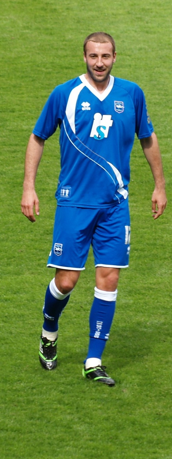 Photograph of Glenn Murray